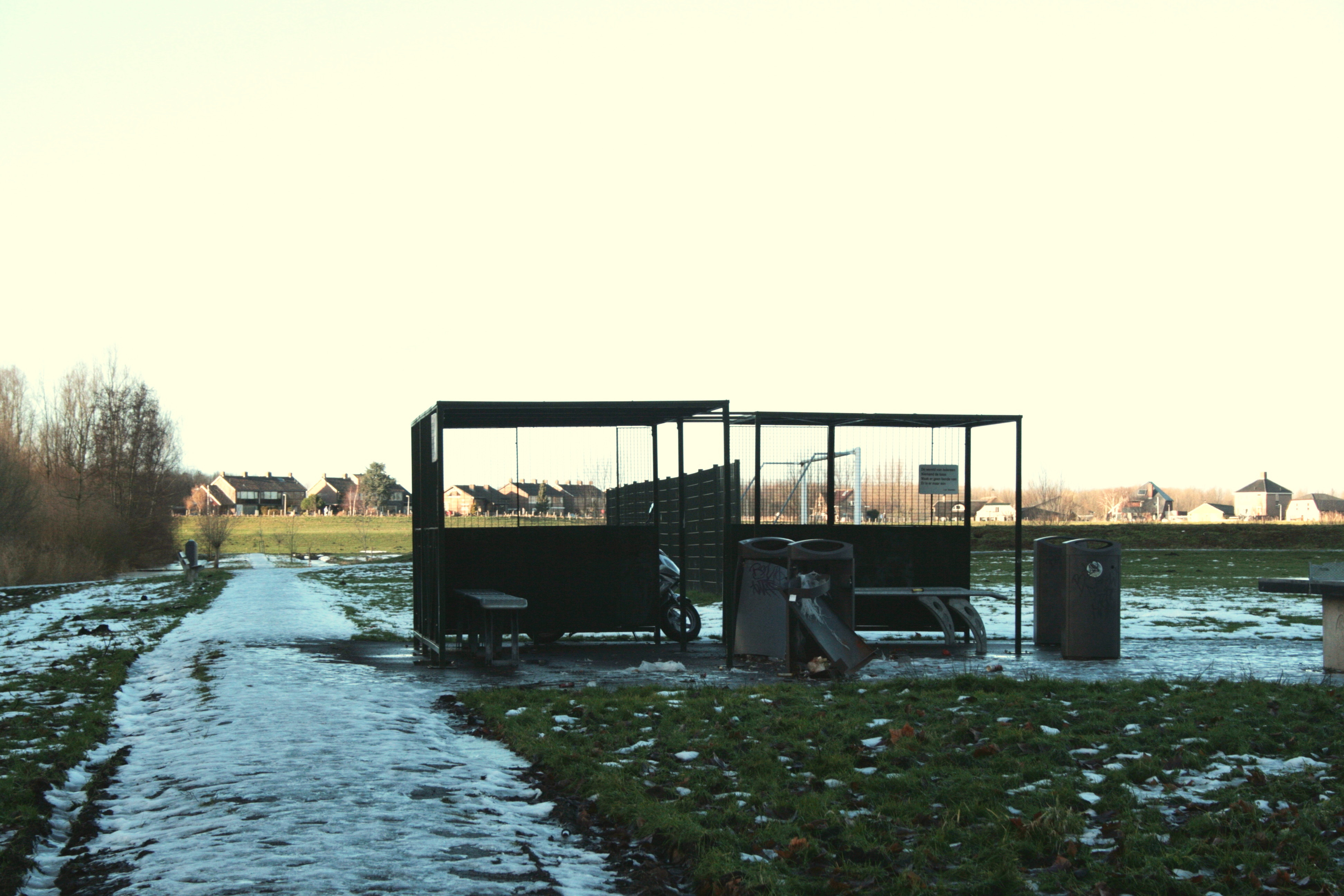 The hangout on the Ommoordse field in Rotterdam-Ommoord (November 2009 to November 2011)